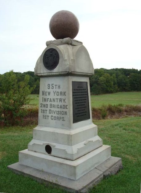 95th New York Infantry Monument, Reynolds Avenue, Gettysburg Battlefield.